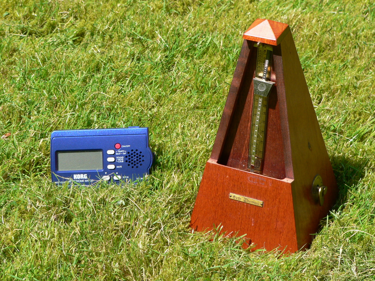 On the left is a modern, electronic metronome. To right is an older style, spring driven pendulum metronome.Photo is copyright © by James F. Perry.